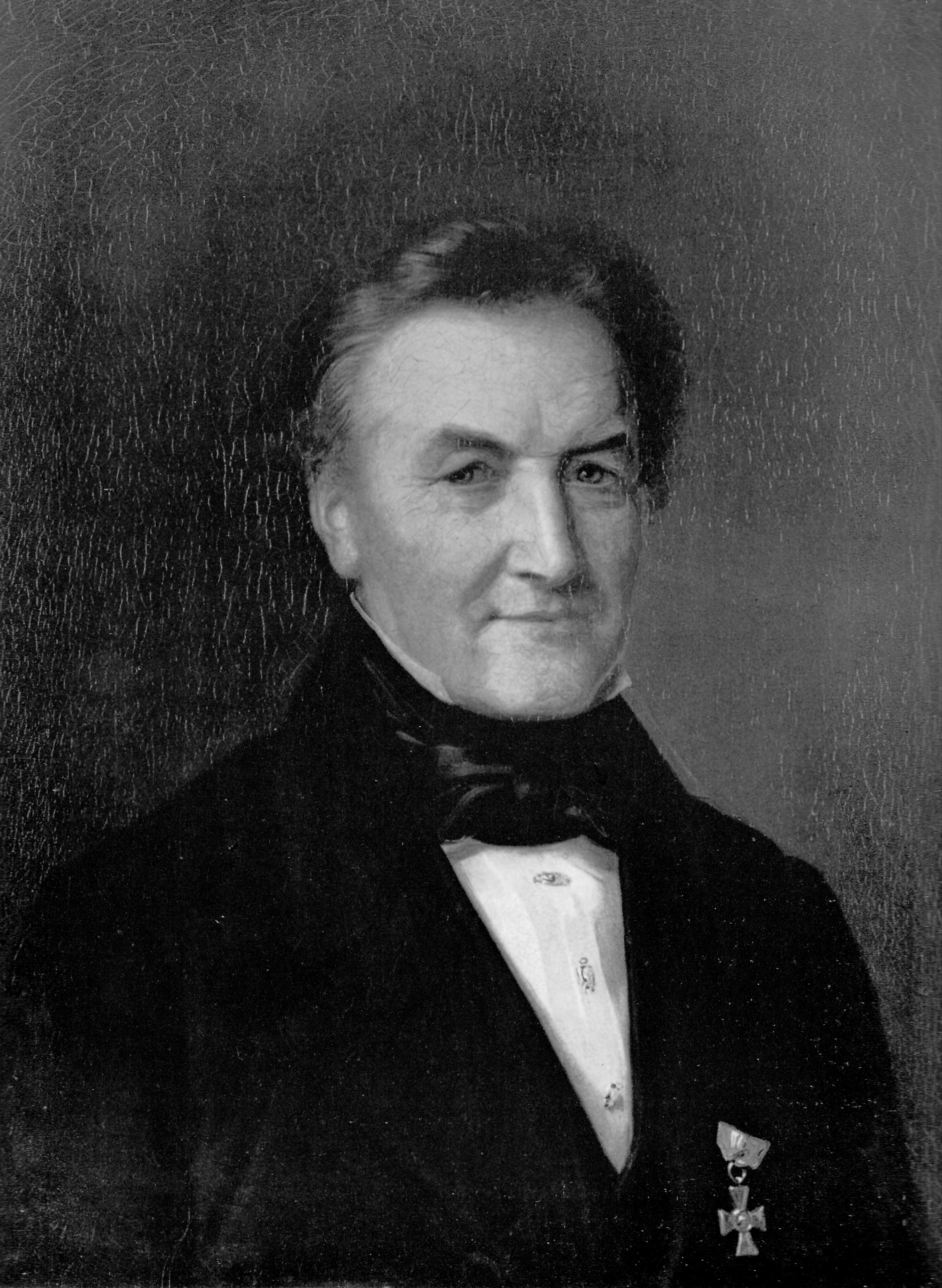 Portrait of Maximilian Friedrich Weyhe